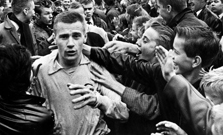 Henry Larsson became the topscorer in 1961 Allsvenskan and scored 8 goals in the UEFA Intertoto cup 1961.The image qualifies as a photographic picture (fotografisk bild) since there is nothing original about the photo and the fact that anyone could have taken it. Therefore since this photographic picture was taken between 1955-1961, thus before 1969, it is in the Swedish public domain according to the Swedish transitional regulations of 1994.